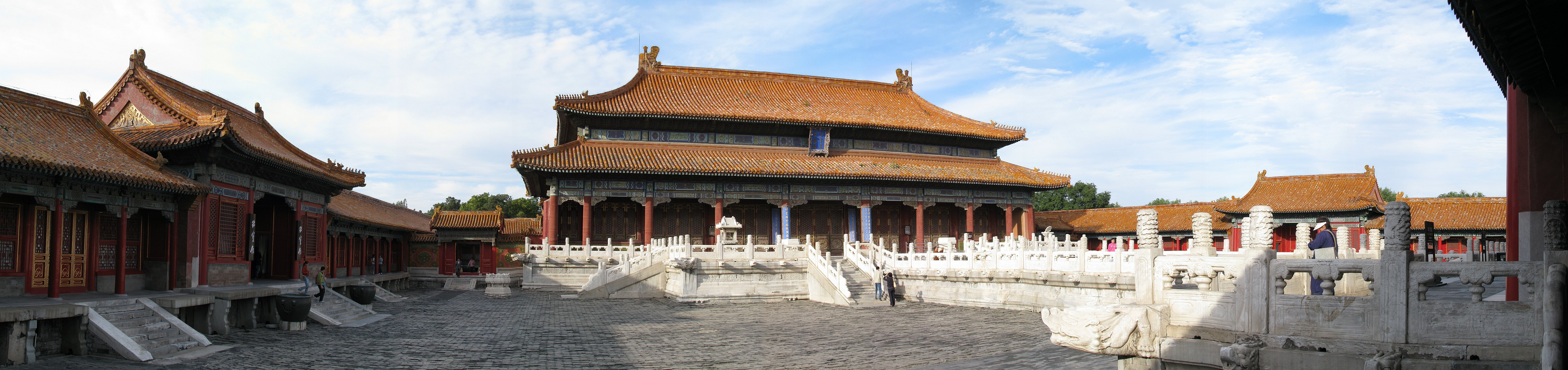 Beijing, Forbidden City, inner area, panoramic view (small, lowres)